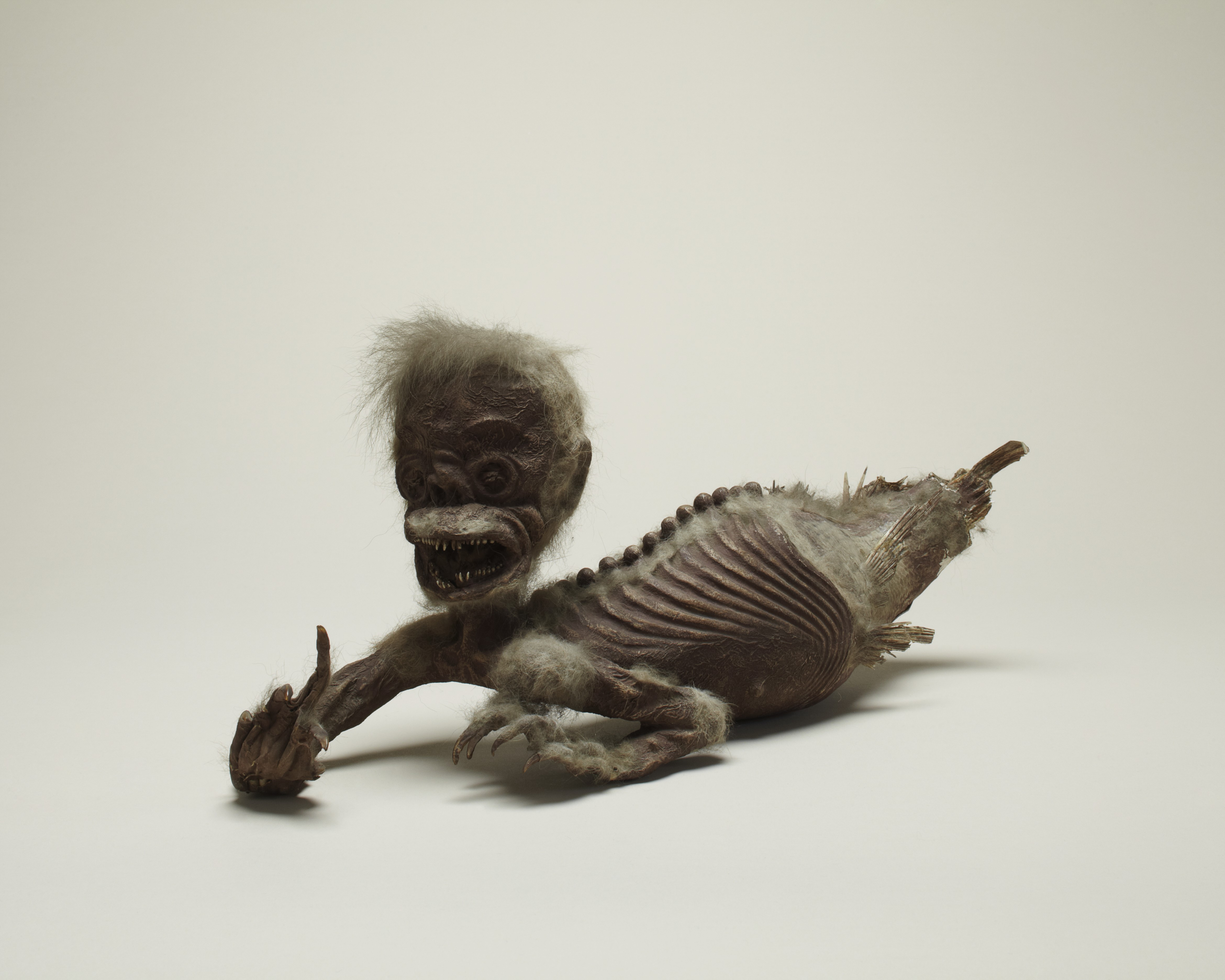 Still life photographs of objects from Henry Wellcome's collections that are housed by the Science Museum and stored at their Blythe House store. The photographs were commissioned by the Financial Times for an article about the 75th Anniversary of the Wellcome Trust in 2011. Wellcome Images